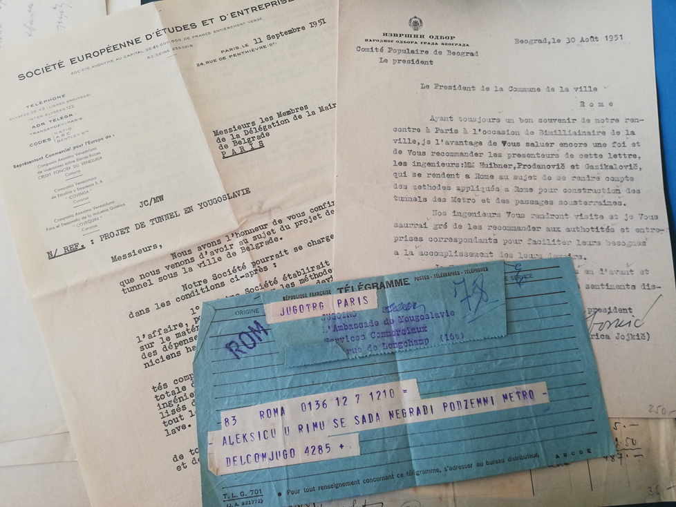 Documents from 1951 about construction of The Belgrade Metro. They can be found in the Society for Culture, Art and International Cooperation Adligat in Belgrade, Serbia. Српски (ћирилица): Прва документа о изградњи Београдског метроа, из 1951. године. Налазе се у Удружењу за културу, уметност и међународну сарадњу „Адлигат" у Београду.